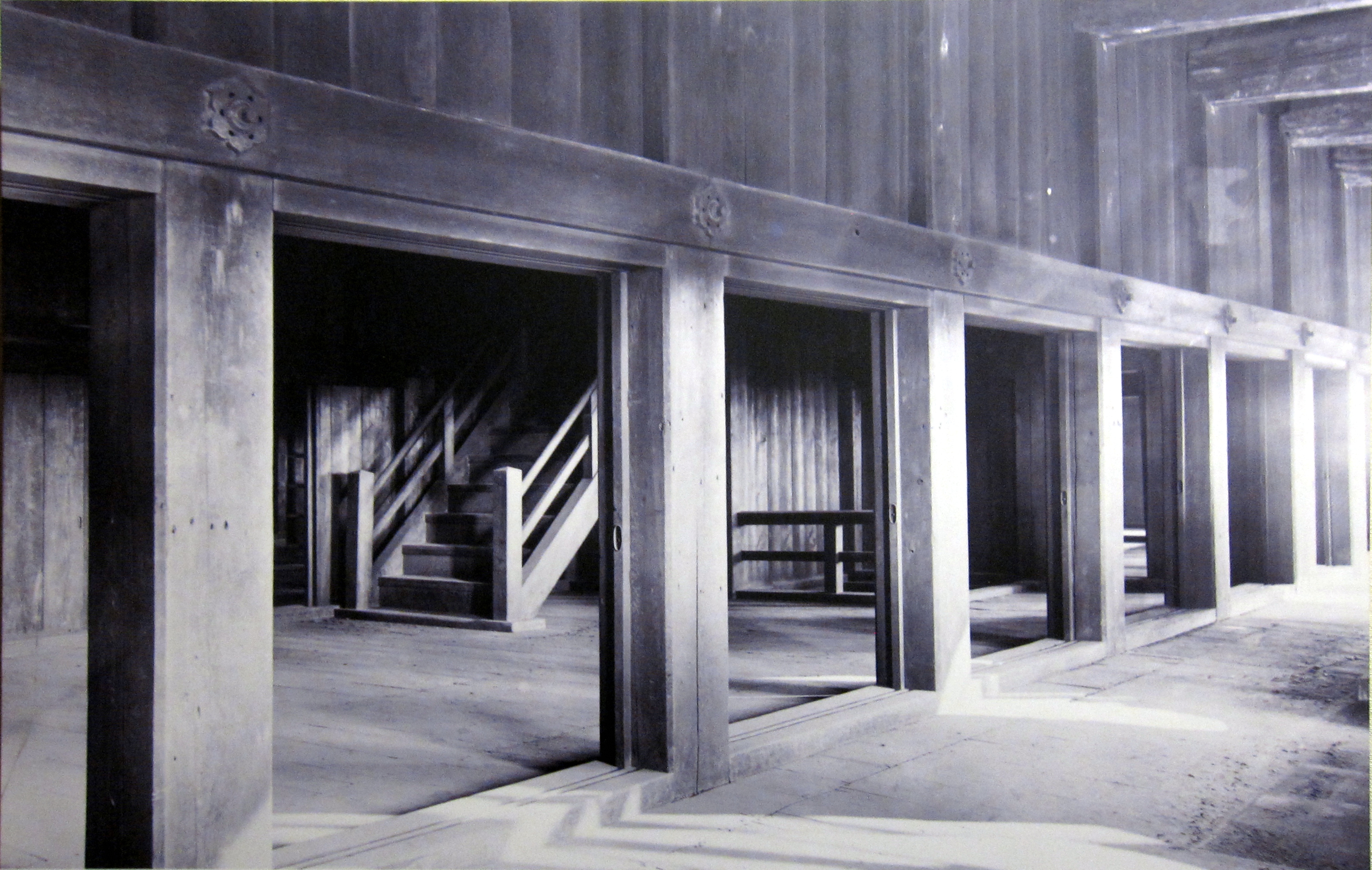 Interior of Nagoya Castle main tower before its destruction in 1945.